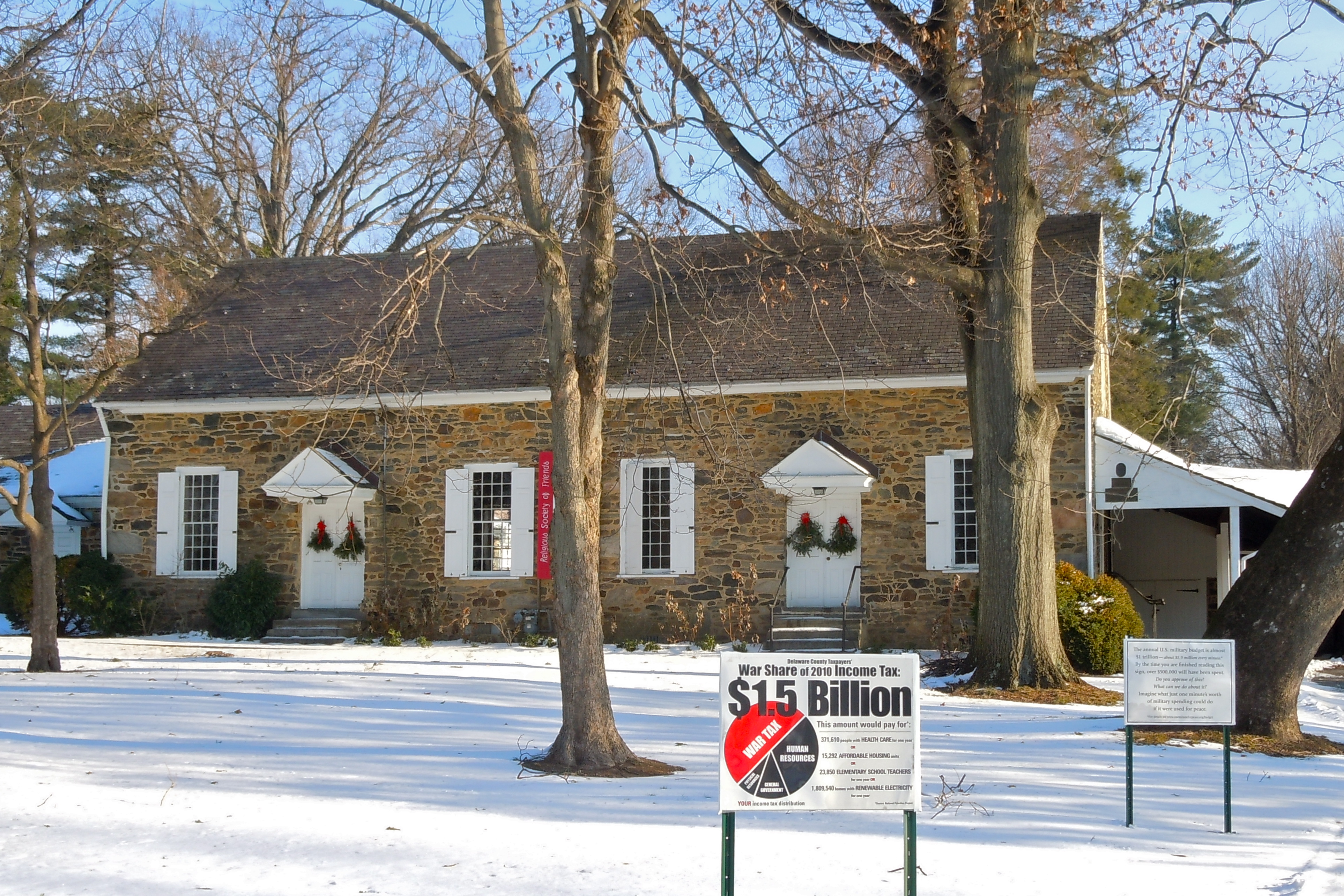 Providence Friends Meeting House in Media, Pennsylvania. On PA 252, Providence Road. Meeting House has been there since about 1700, but this edition is about 1820? Not to be confused with Media Friends Meeting House, on the other side of town, about 7 blocks away.